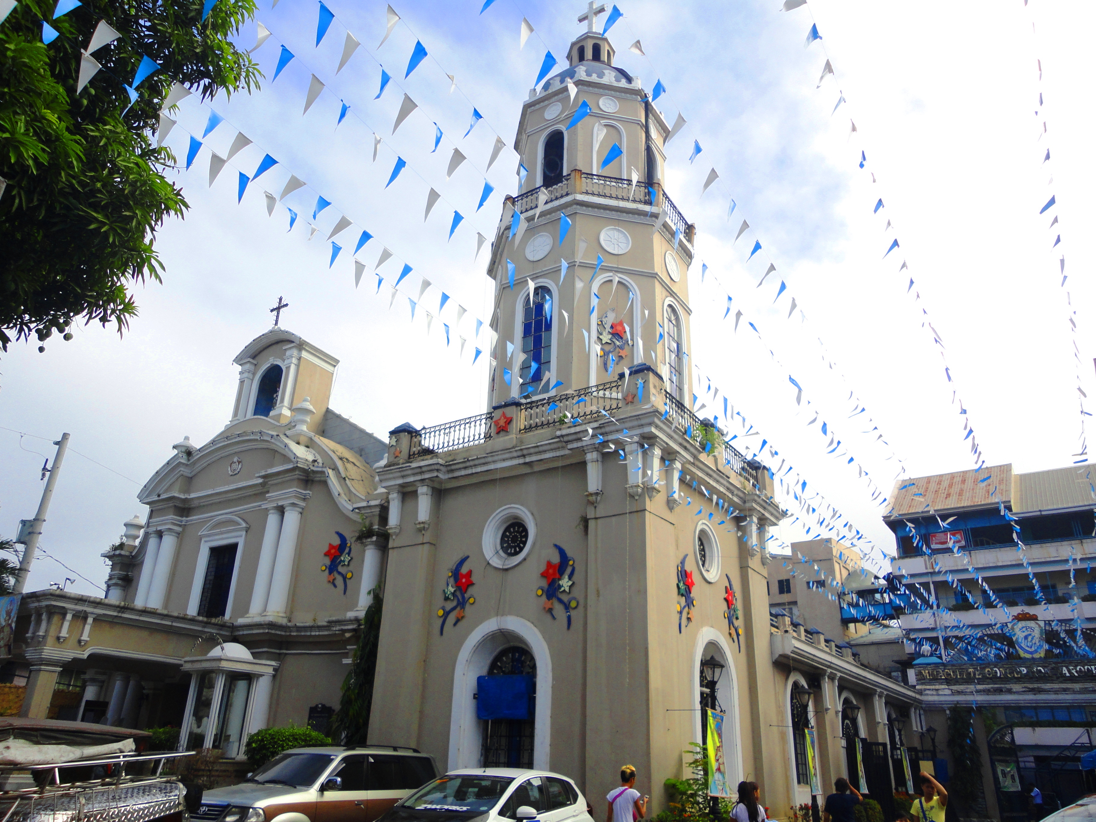 church exterior